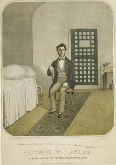 Lithograph: Passmore Williamson in Moyamensing Prison, (Philadelphia, 1855).